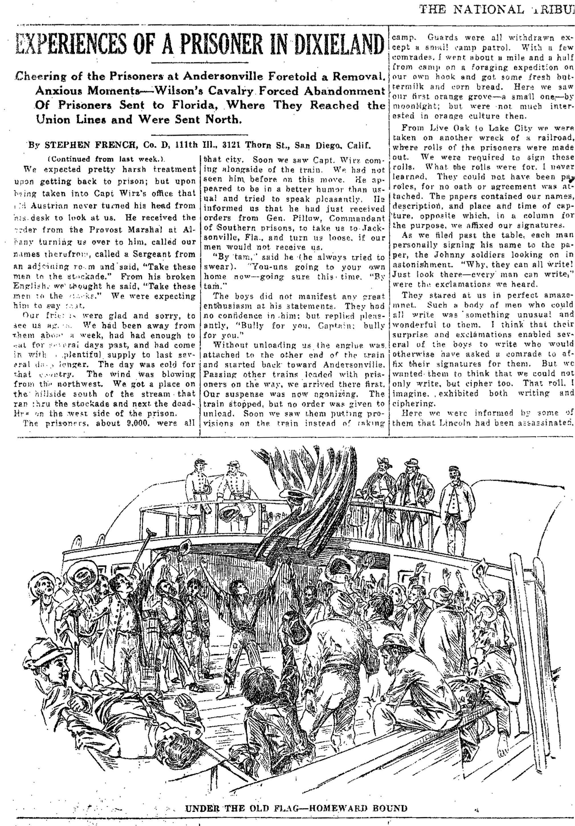 "Experiences of a Prisoner in Dixieland" from the About The National tribune. (Washington, D.C.) 1877-1917 National Tribune, the Stars and Stripes (1926) Note: Content on this page was authored by Stephen French (1844–1929).